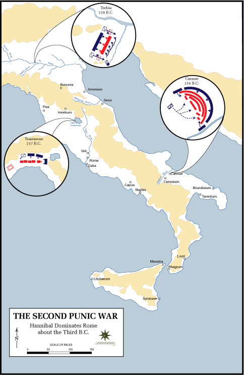 Second Punic War, Hannibal dominates Italy